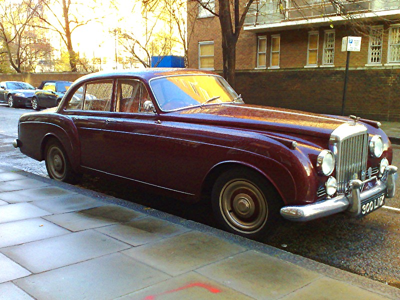 6230cc first reg. 18 Nov 1960